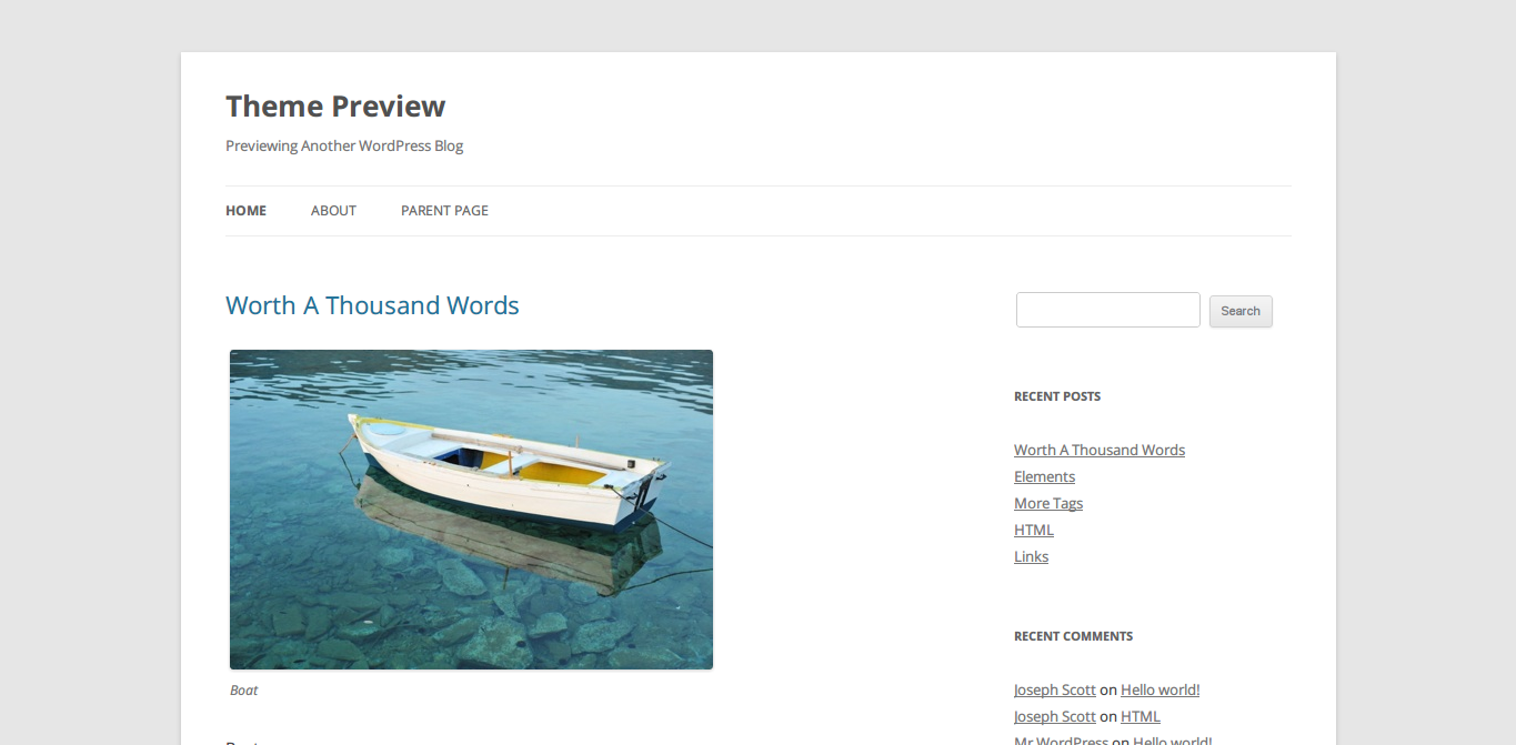 WordPress Twenty Twelve Theme